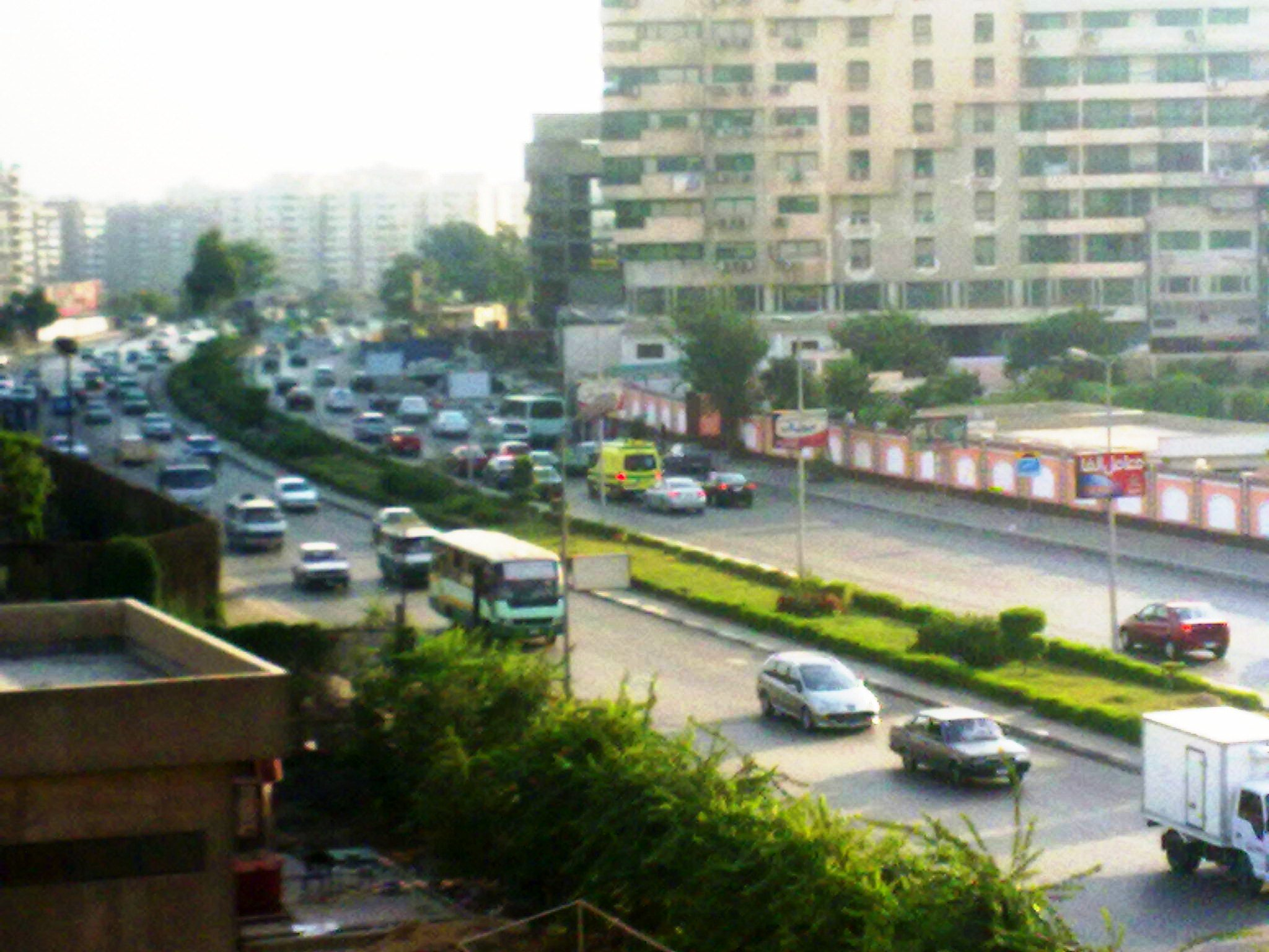 Nasr city autostrade